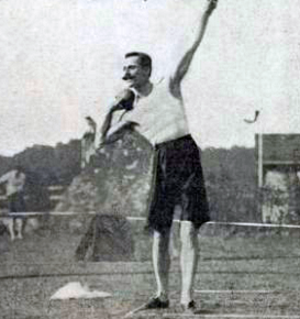 Panagiotis Paraskevopoulos, Greek sportsman